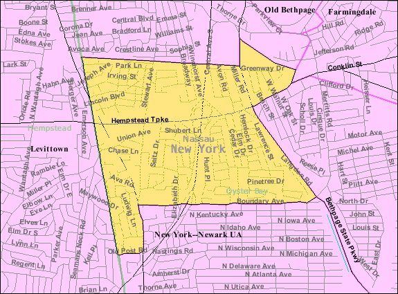 U.S. Census 2000 reference map for Plainedge, New York